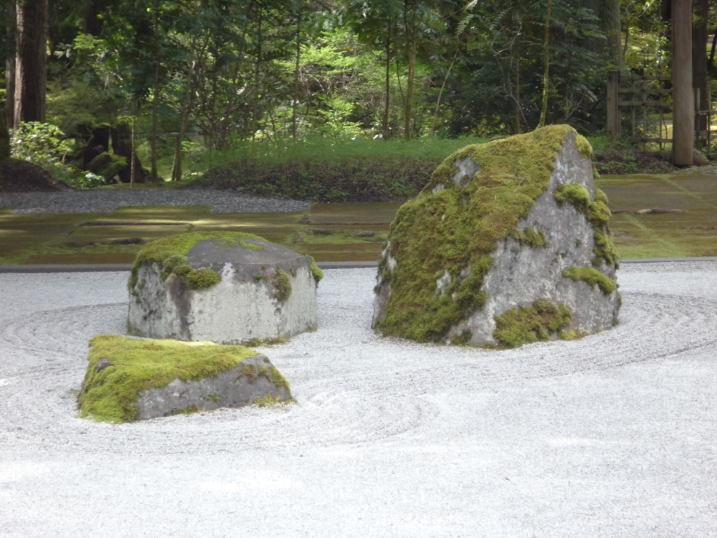 Closeup of rock pair at the Zen Garden, Bloedel Reserve.